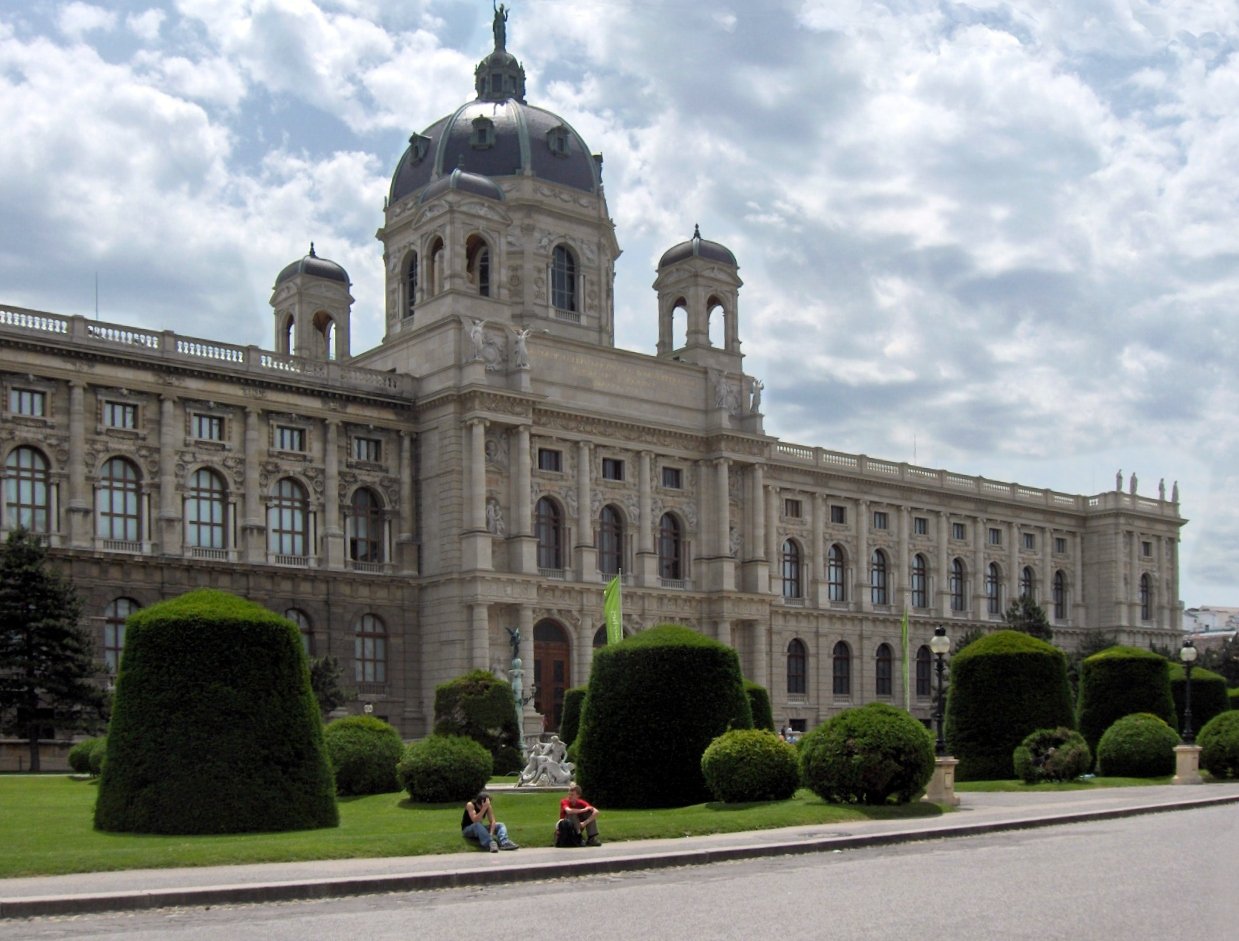 Austria, Vienna, Kunsthistorisches Museum